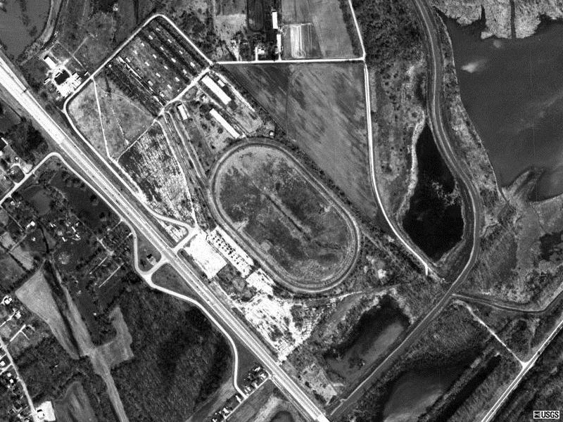 Aerial view of Cahokia Downs, April 2, 1998, while the facility was still in use as a thoroughbred training center, before the site was redeveloped.